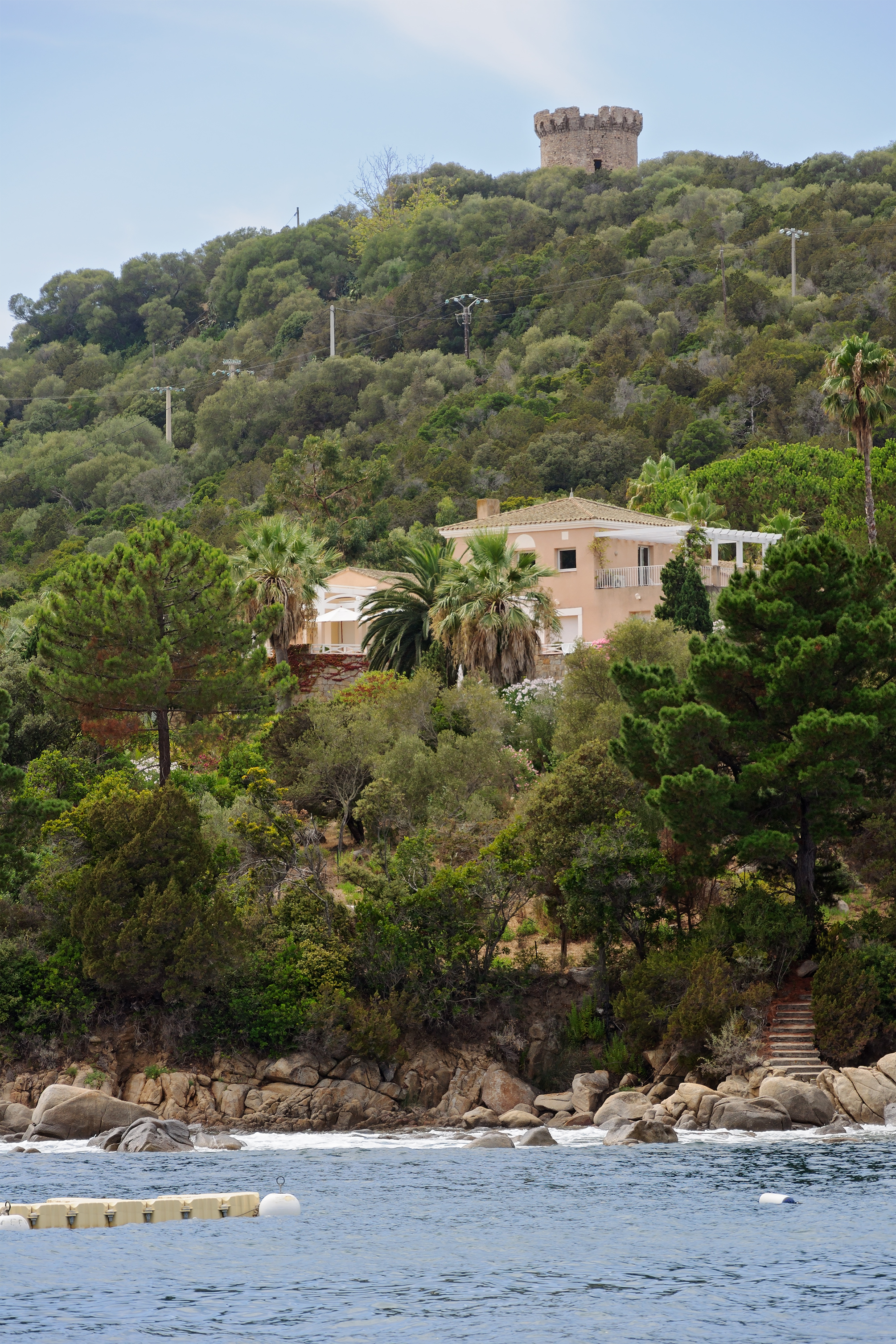 The shore at the foot of the Genoese tower of Castagna, between Castagna cape and Portiglio cove, Coti-Chiavari, Southern Corsica, France